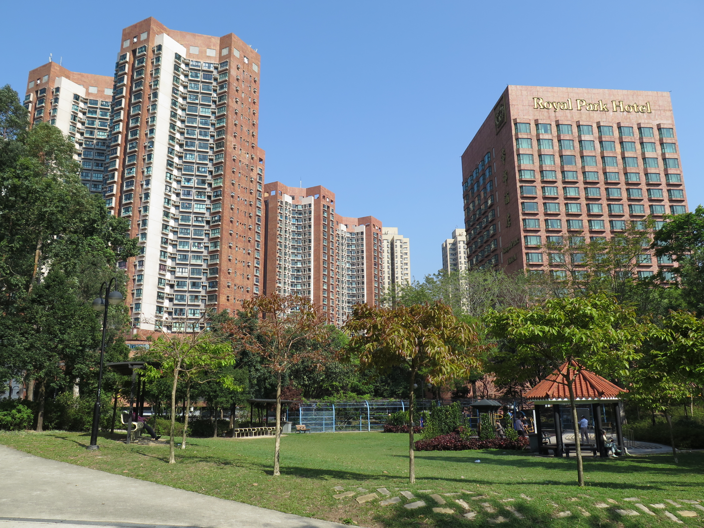 Royal Park Hotel & New Town Plaza Phase 3